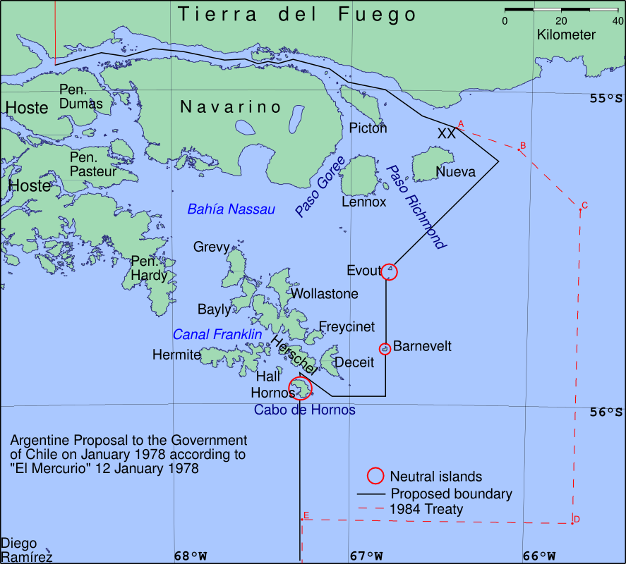 Argentine proposal to Chilean Government in January 1978 for a new Boundary treaty according to "El Mercurio" on 12 January 1978, cited in Argentina y el laudo arbitral del canal beagle, page 52 and 53